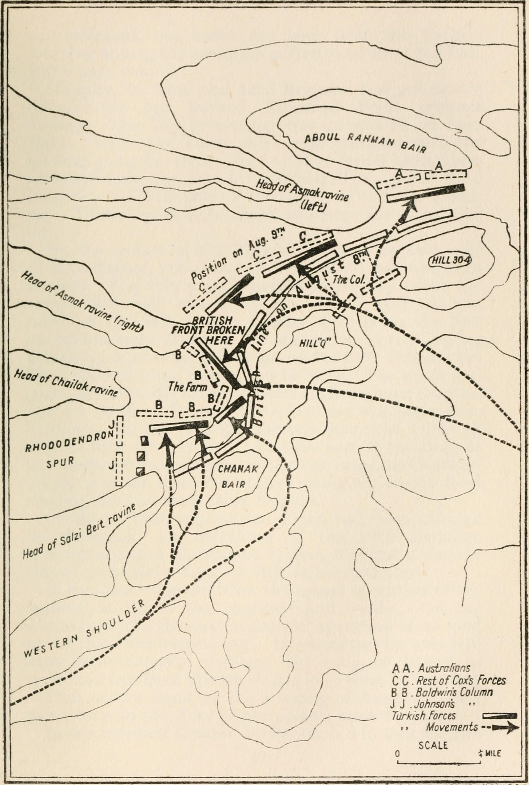 Second phase of the Battle of Sari Bair, showing the Turkish counter-attack, 9–10 August 1915.